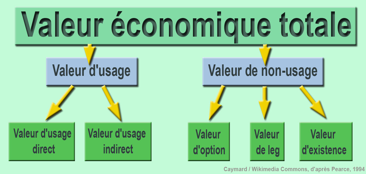 Graph of the total economic value (TEV)